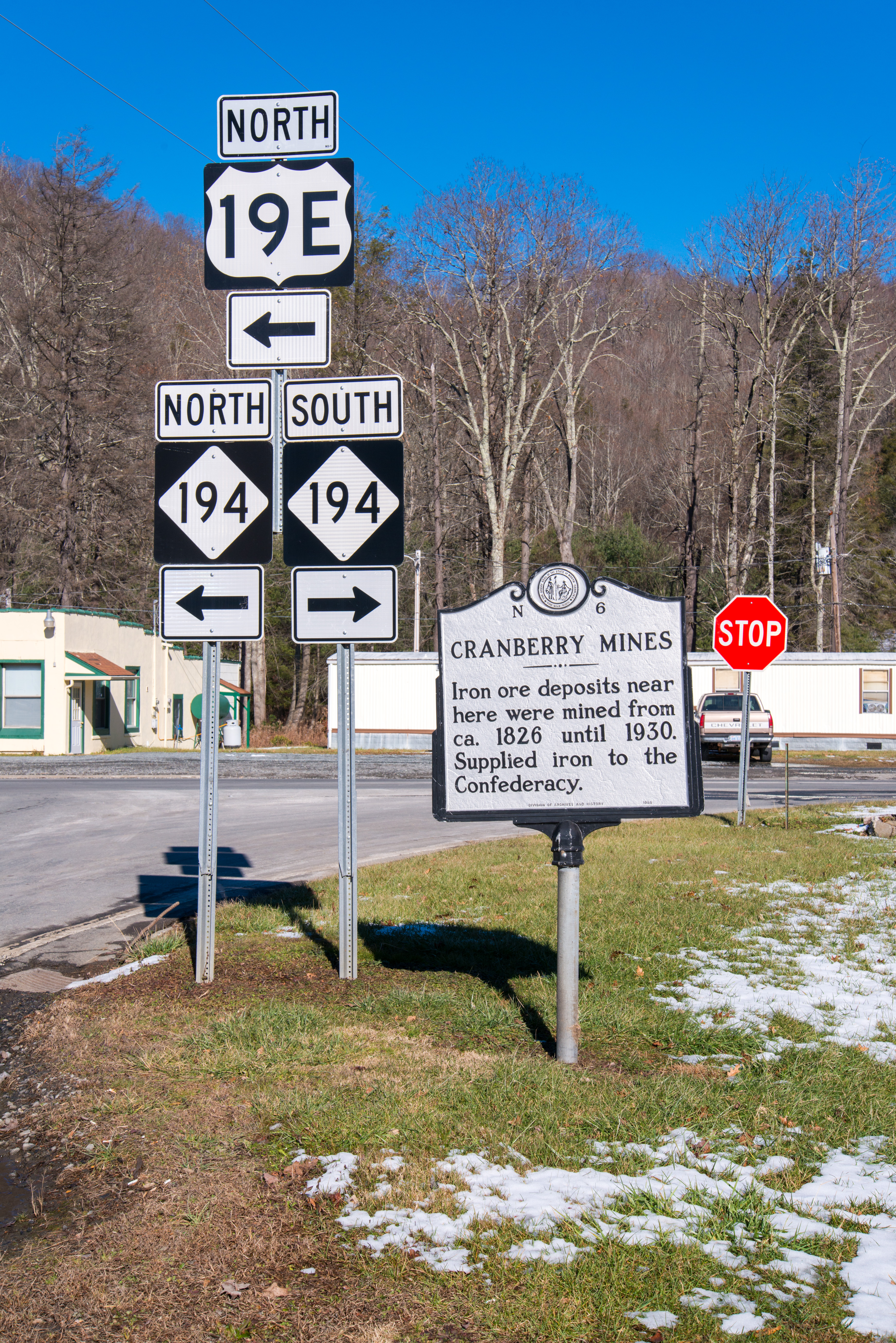 Intersection of U.S. Route 19E and North Carolina Highway 194, in Cranberry, North Carolina. Includes a historic marker to the "Cranberry Mines."